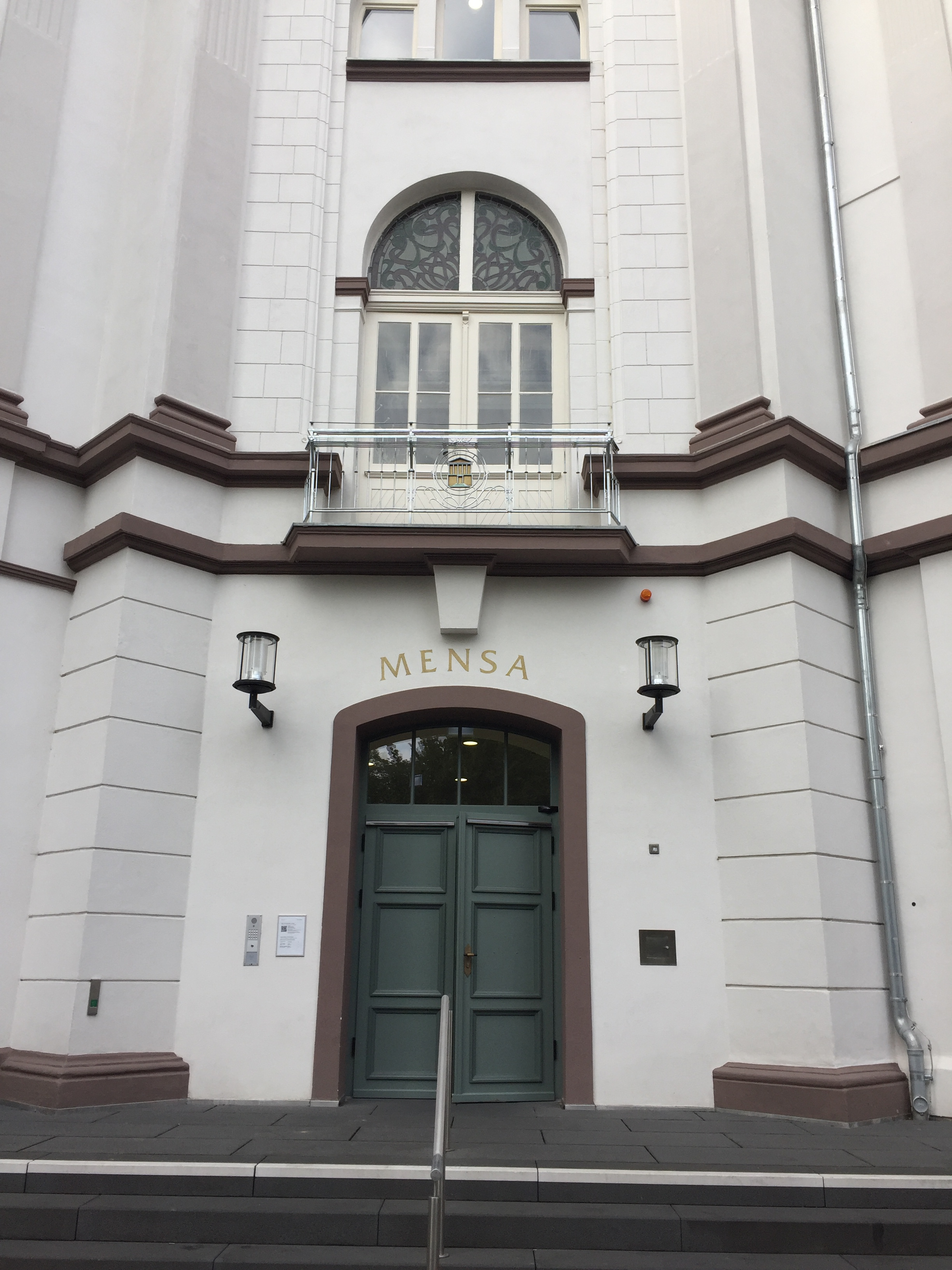 The old canteen